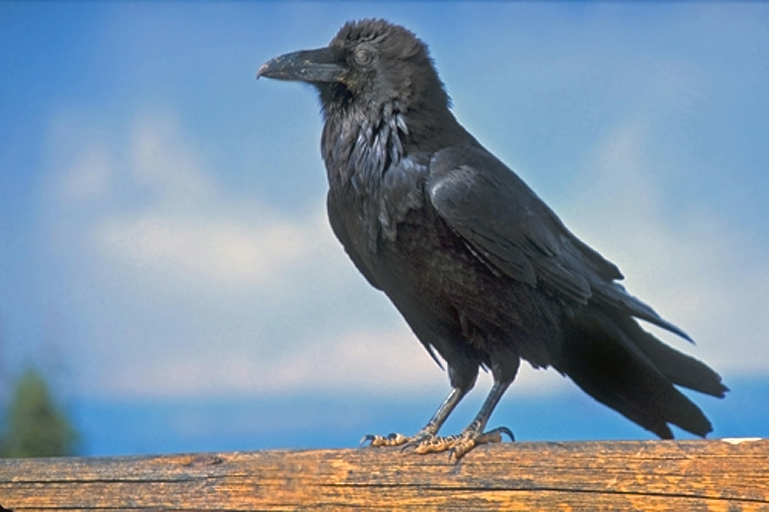 The Common Raven is abundant in the southwest.